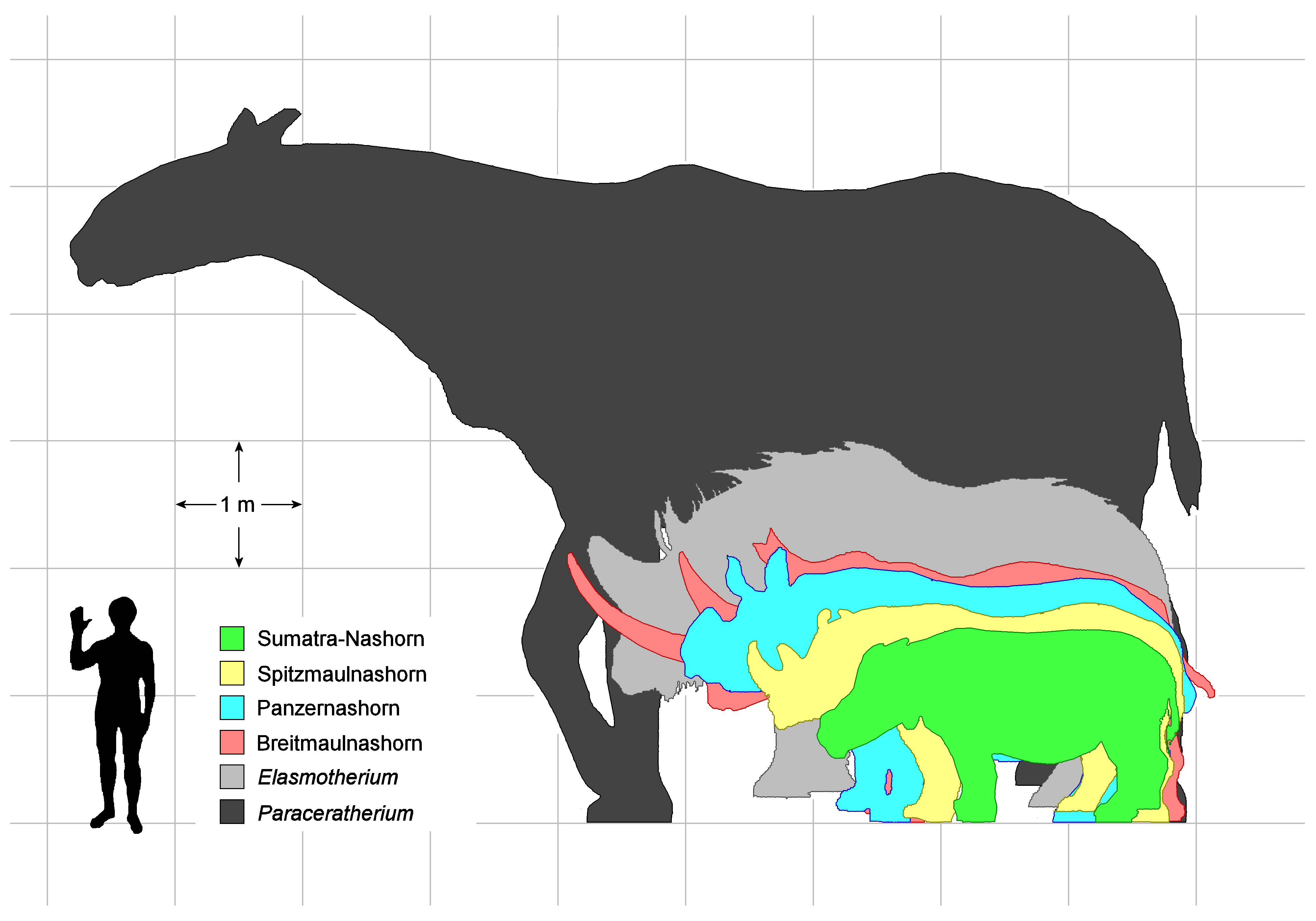 Relative sizes of Paraceratherium, Elasmotherium, white rhinos, Indian rhinos, black rhinos and Sumatran rhinos compared to a human; the animal-outlines and size comparisons are taken from Henry Fairfield Osborn: The extinct giant rhinoceros Baluchitherium of Western and Central Asia. Natural History, New York 23 (3), 1923, p. 208–228 (p. 225)